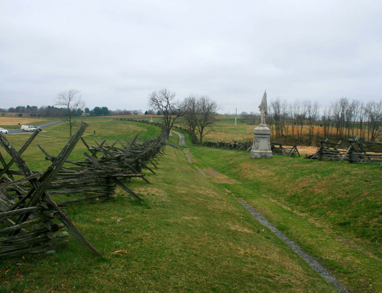 The Sunken Road, also known as the Bloody Lane, is among the most important and recognizable topographical features of the American Civil War. Worn down from years of wagon traffic, the Sharpsburg, Maryland farm lane transformed into a graveyard after a day of conflict between the Union and Confederate armies during the Battle of Antietam.. Between 9:30am and 1pm on September 17, 1862, Union Major General William French led 5,500 soldiers in an attack on Confederate Major General D. H. Hill and his 2,600 soldiers, who held the Sunken Road for most of the morning.